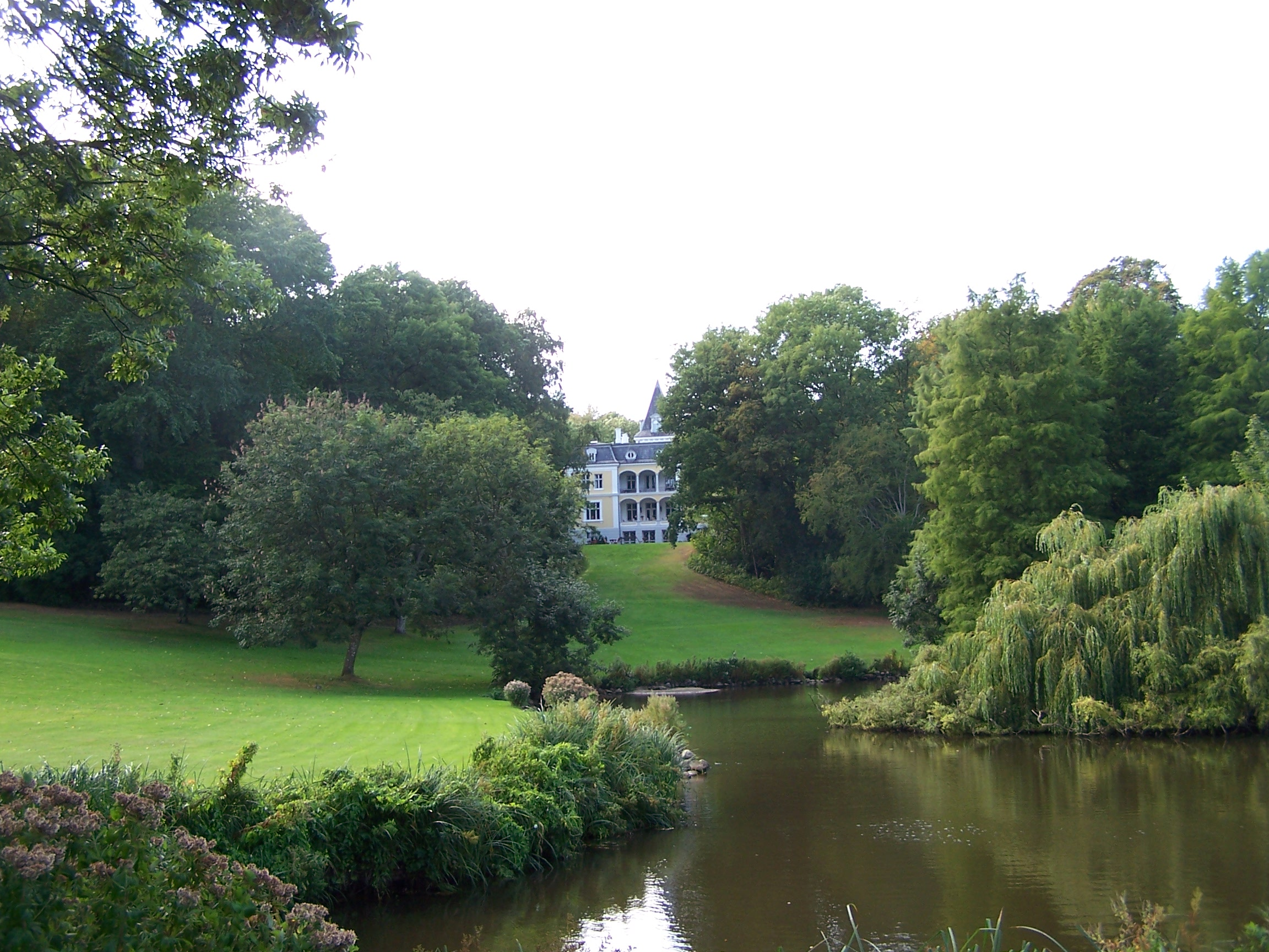 liselund castle